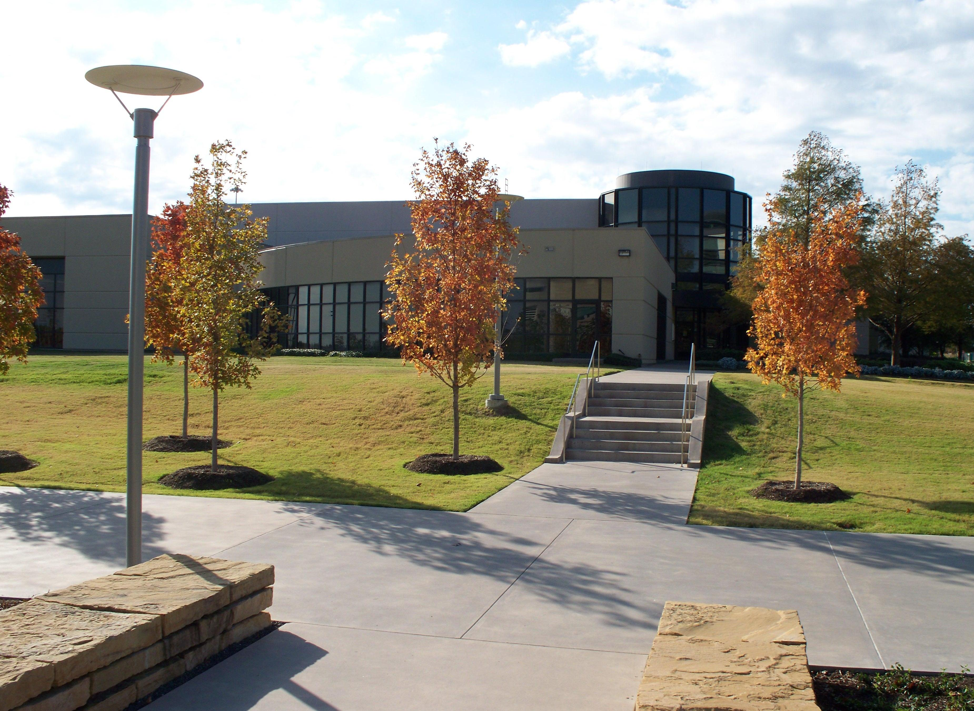 University of Texas at Dallas 89,000-square-foot (8,300 m2) Activity Center.